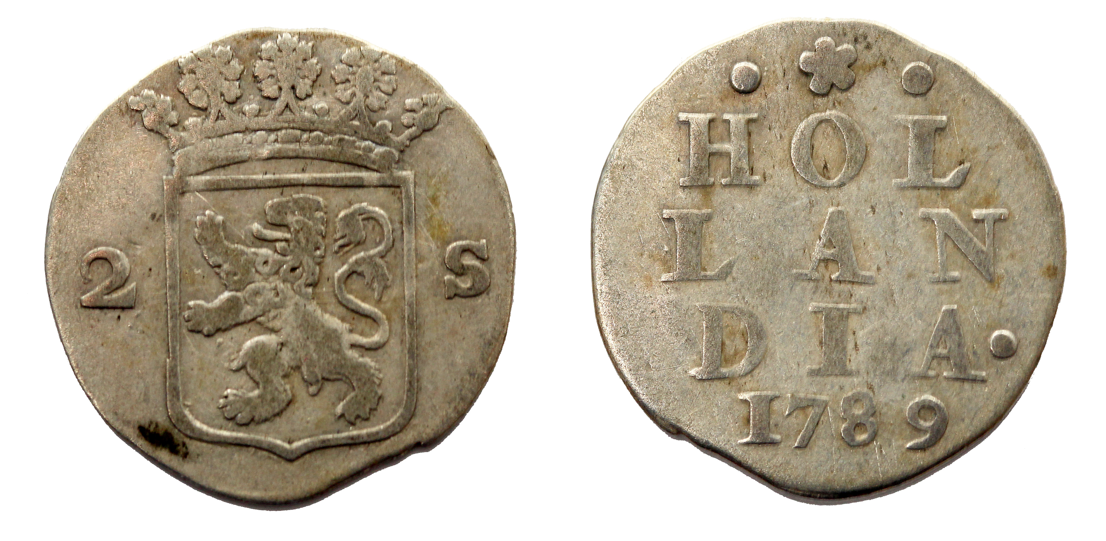 2 Stuiver. Netherlands (1789). De Mey 7159